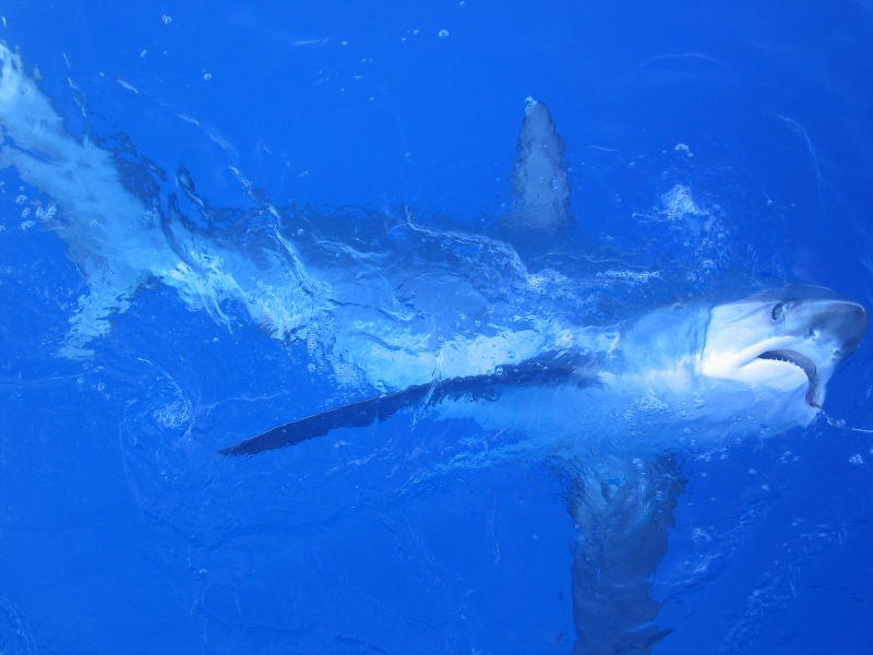 Common thresher shark (Alopias vulpinus) caught on a longline.